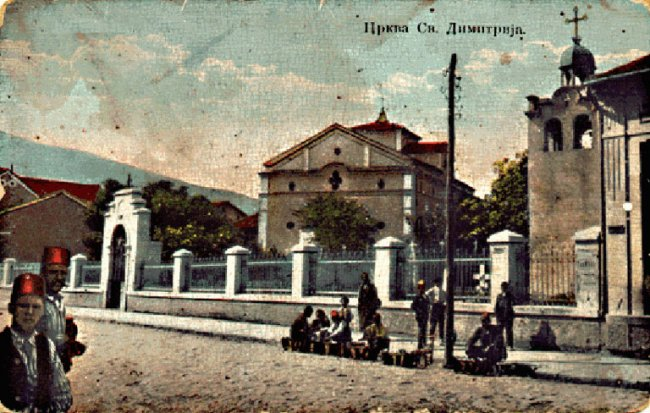 St. Demetrious Church in Skopje, Macedonia